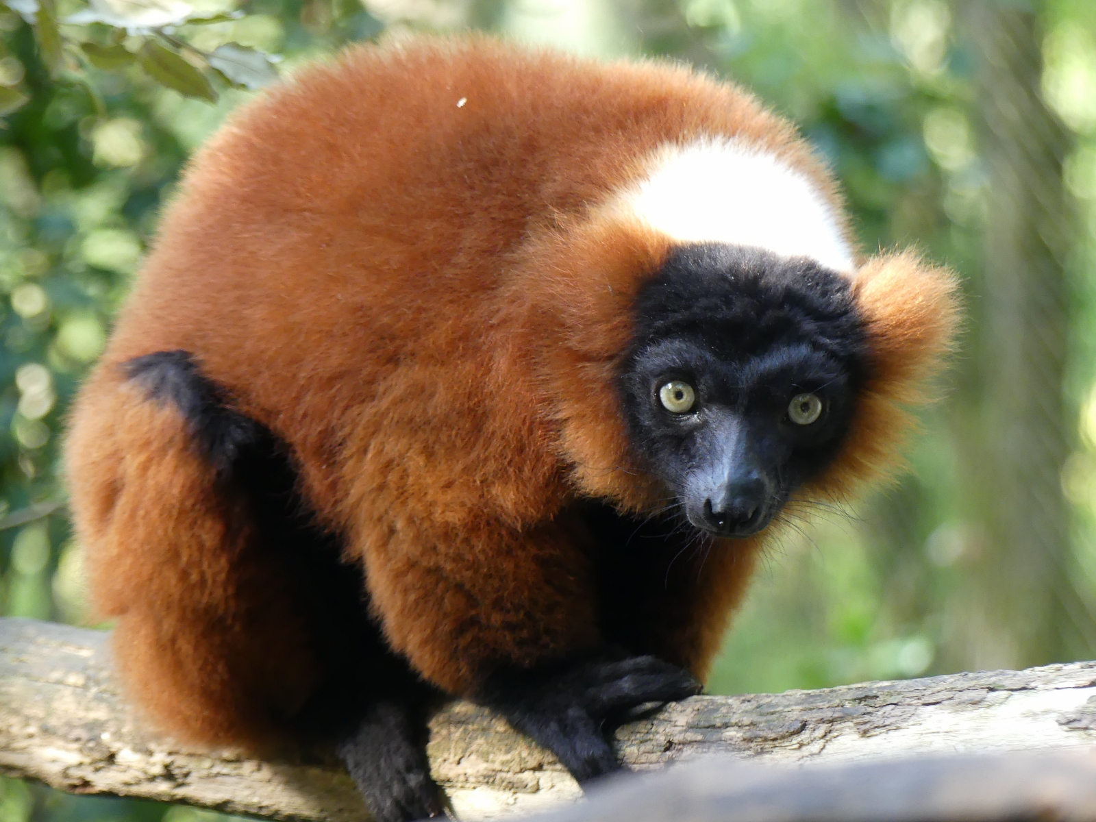 Red ruffed lemur, Réserve Zoologique de Calviac